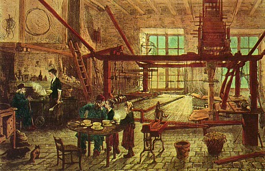 The inside of a canut's house - Engraving